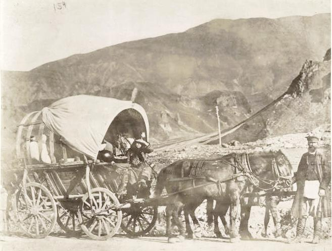 A Molokans wagon (fourgon).